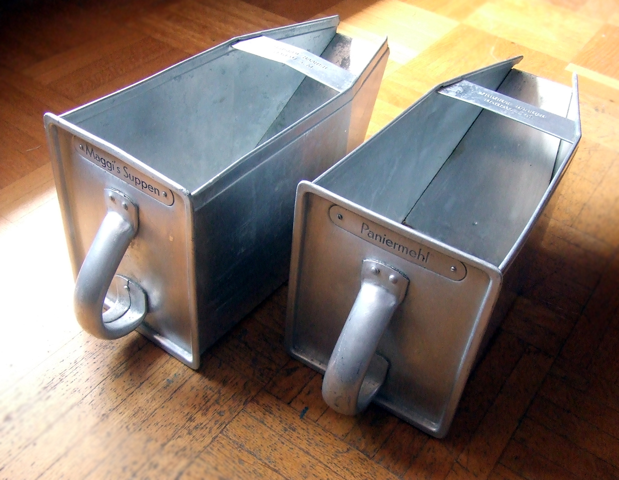 Two of the aluminium drawers from the Frankfurt-kitchen or Frankfurter Küche, the first built-in kitchen. I made the photo myself, Christos Vittoratos